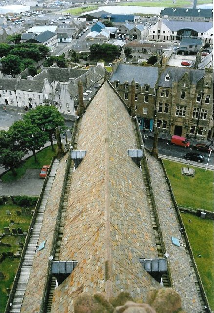 St Magnus Cathedral. View from the tower parapet along the nave (named from the Latin for 'ship', a description which makes sense from this angle!). Beyond is the main street - Town Hall on the right, Tankerness House museum on the left.